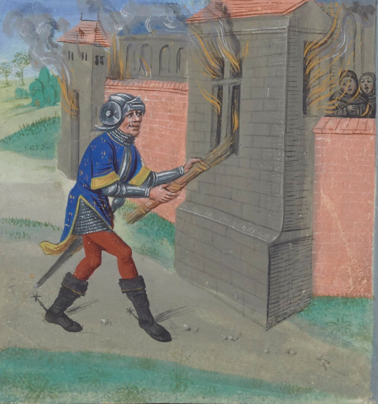 Geoffroy la Grand Dent setting fire to Maillezais abbey, miniature from a manuscript of Coudrette's Roman de Melusine ((BNF ms fr 24383, fol 24v)